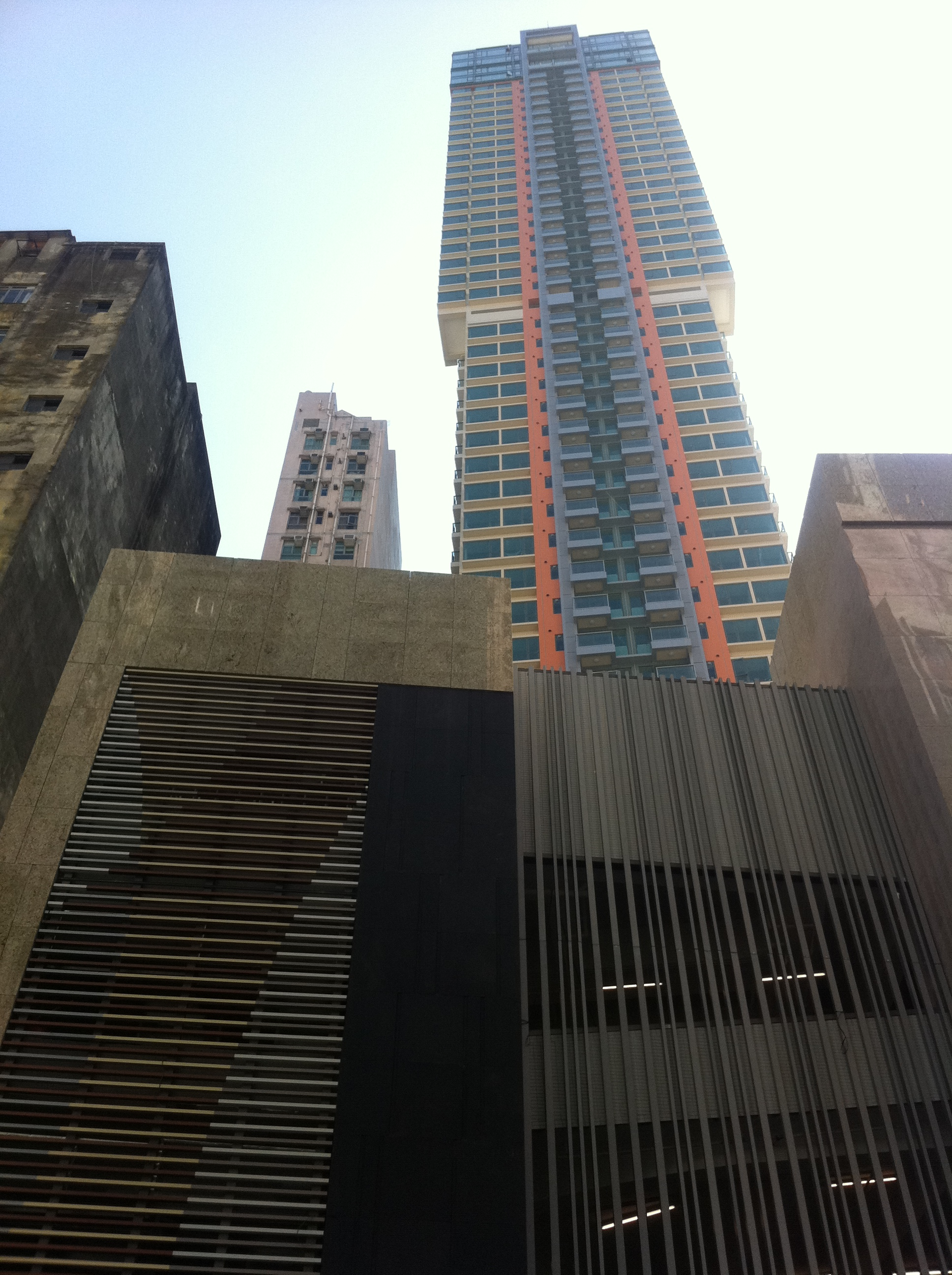 西環堅尼地城石山街9號 - 新世界發展寶雅山